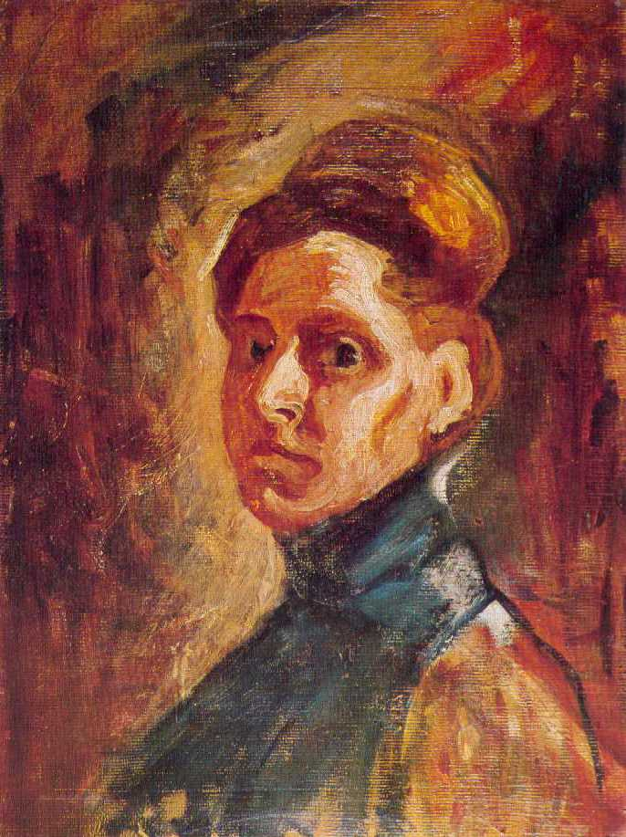 Self Portrait of Nadežda Petrović